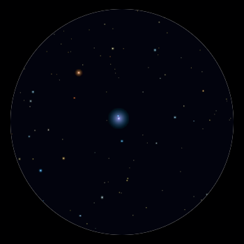 Mintaka